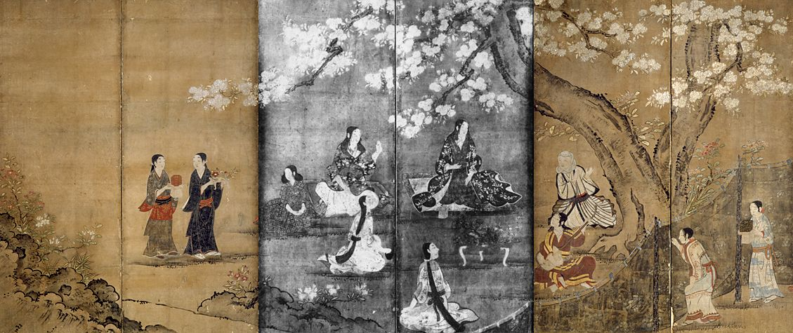 Right of a pair of six-section folding screens (byōbu). Depicted is a party scene of noblewomen under cherry trees (Jap. yaezakura) in bloom.